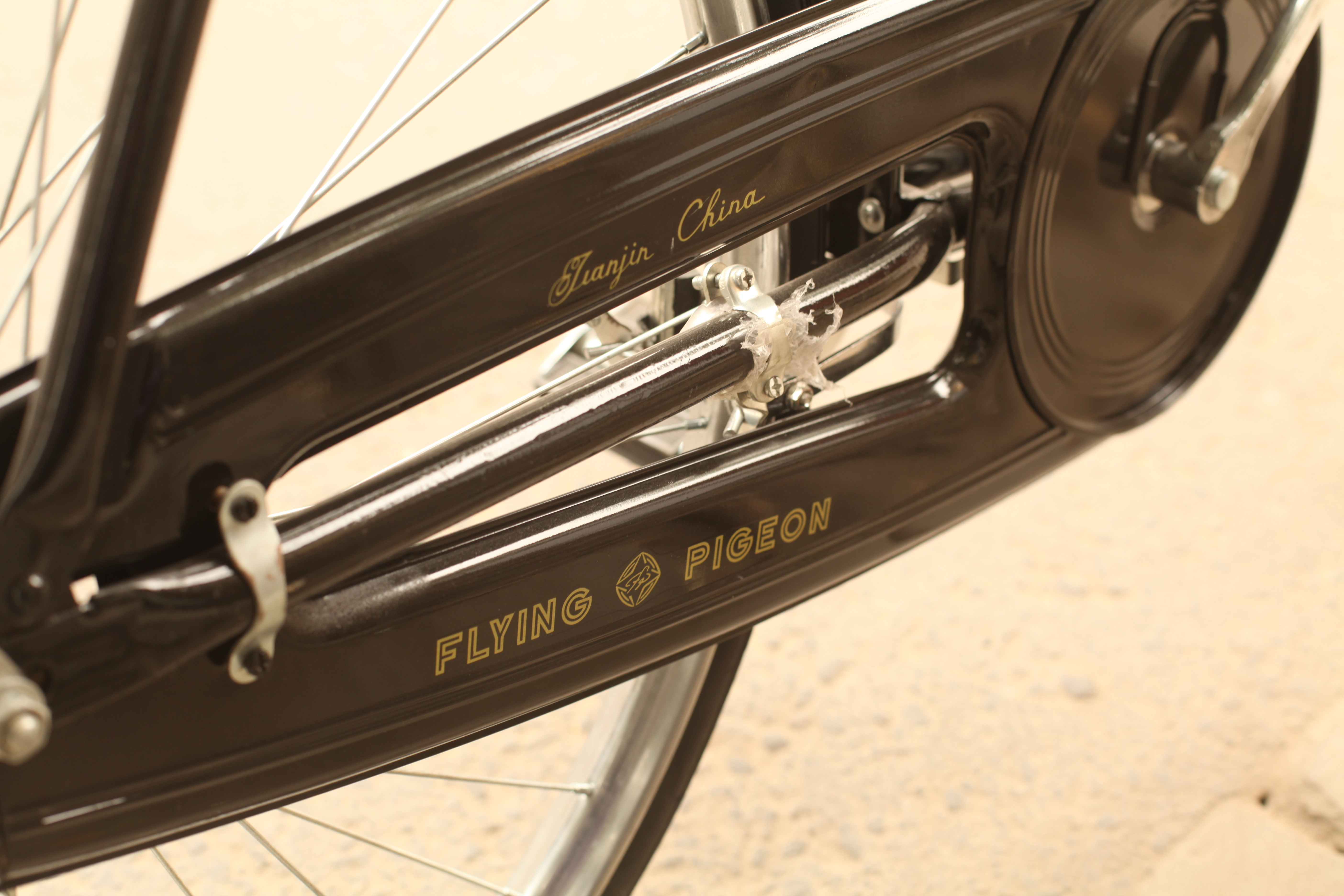 website 回 twitter 回 facebook